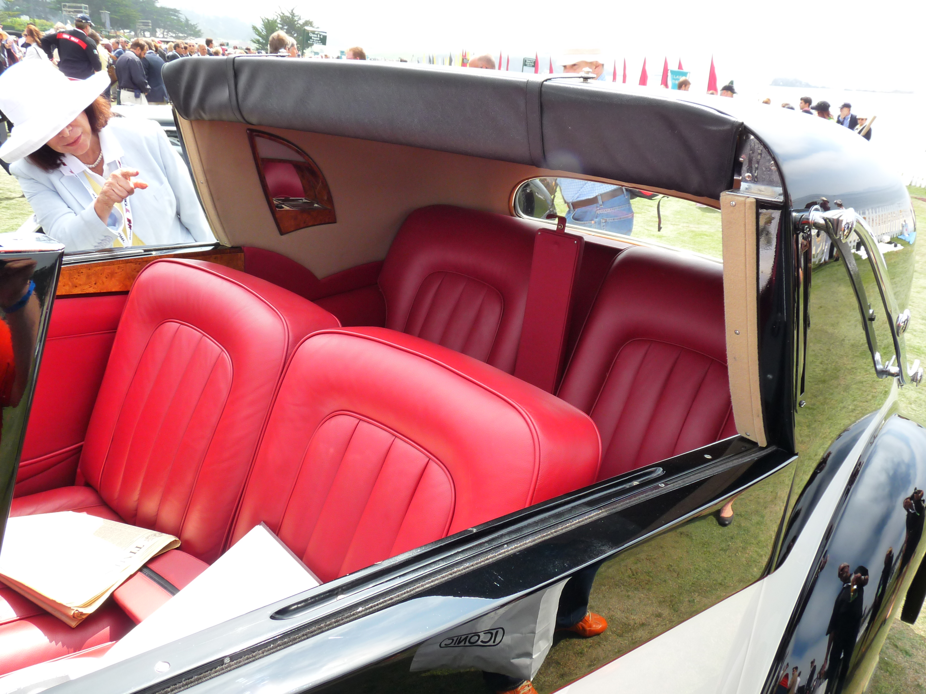 Bentley 4¼ litre coupé de ville by Gurney Nutting 1937. Engine 4257cc S6 OHV. Registration BLY 4, Chassis B166JD. Commissioned by Lady Rothschild in 1936 who wanted a more useable car than her husbands pair of French bodied Hispano Suiza. This copies their sweeping lines and black and white paintwork. Styled by John Blatchley of Gurney Nutting who penned the design, but due to the lengthy build time Lady Rothschild lost patience and bought something else. The completed car was sold to a member of the Hartley family (Hartley's Jams)